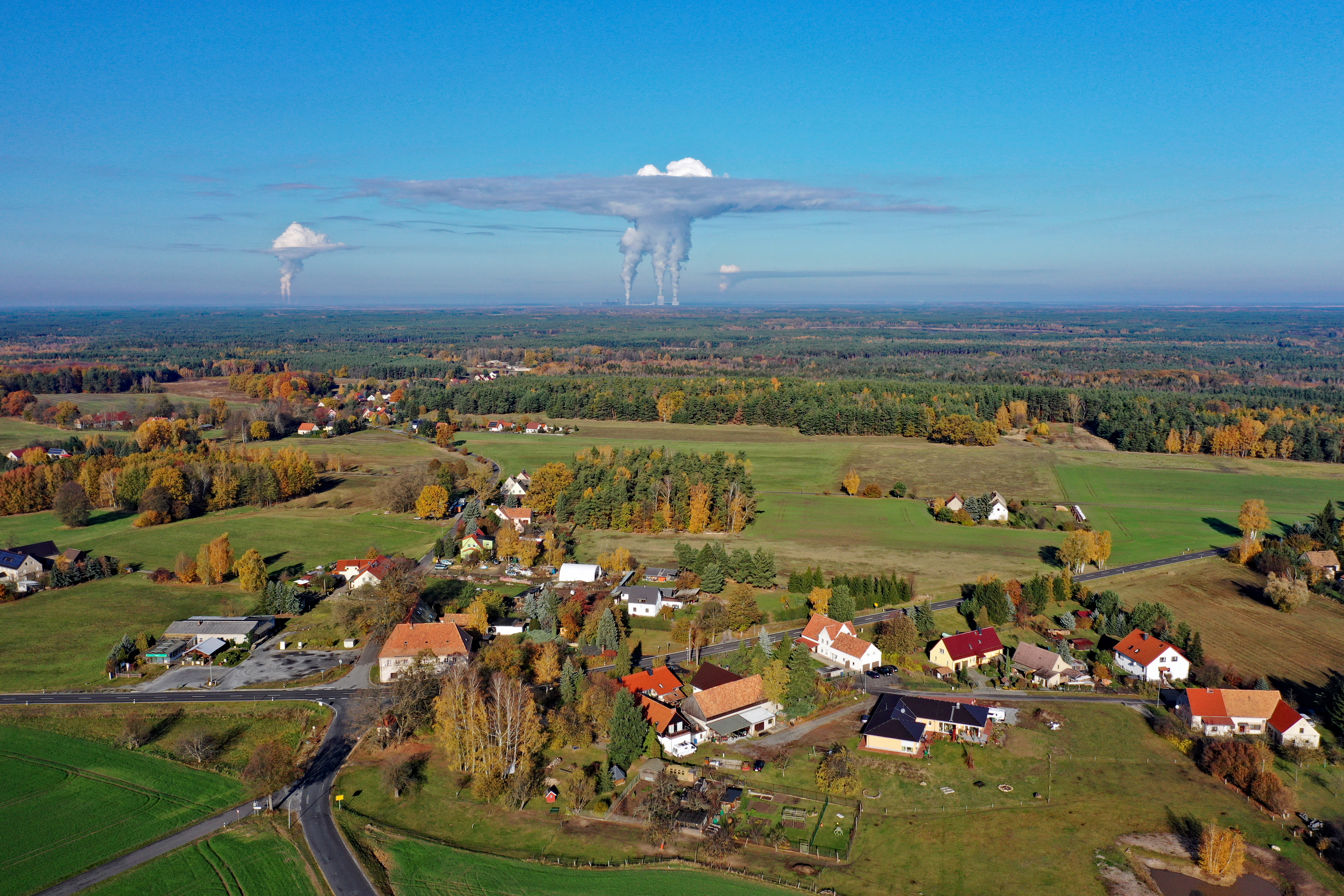 Dauban (Hohendubrau, Landkreis Görlitz, Saxony, Germany) Hornjoserbsce: Powětrowy wobraz Duboho